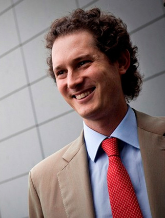 John Elkann at the International Book Fair of Turin, May 13, 2011